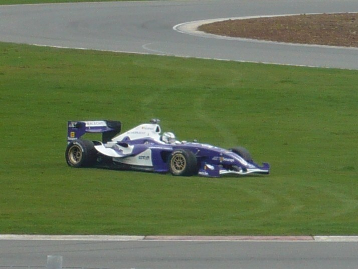 The RSC Anderlecht Superleague Formula car. Photo taken at Silverstone Circuit during its 2010 SF round.